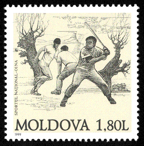 Stamp of Moldova